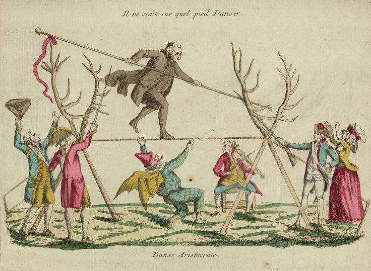 French political cartoon of French cardinal Jean-Sifrein Maury (1746-1817), archbishop of Paris. Library of Congress description : "Print shows Abbé Maury walking a tightrope, attended by the devil disguised as a jester, as nobles encourage him from the left, and on the right, a man and woman, representing members of the Third Estate, attempt to impede his progress."